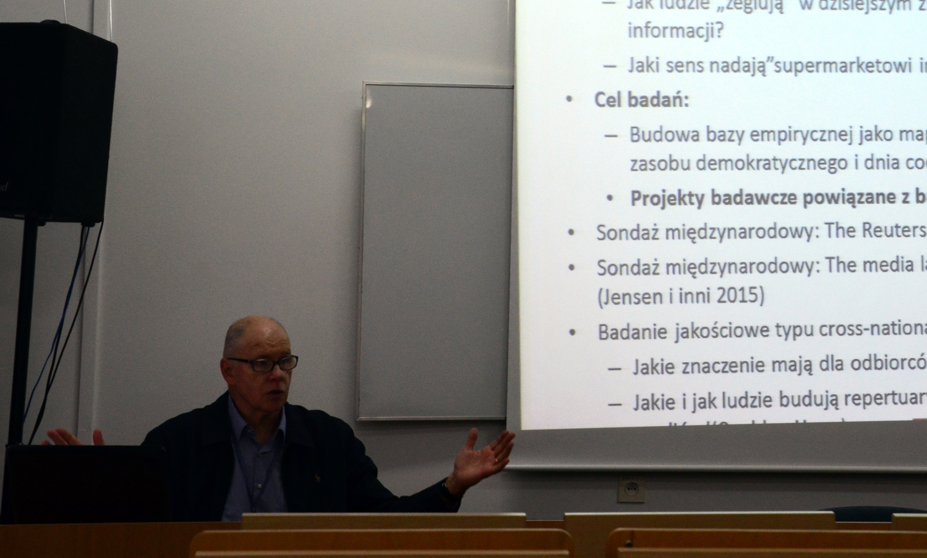 Stanisław Jędrzejowski